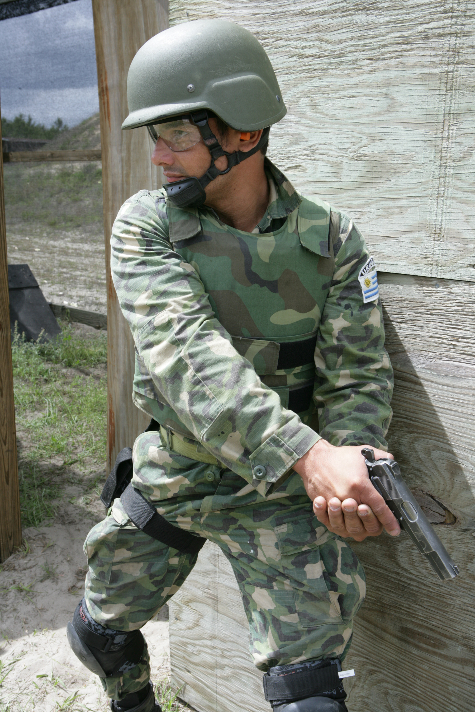 A marine from Uruguay performs clearing techniques at Camp Blanding, Fla., April 18, 2009, during Partnership of the Americas 2009, a multiservice, multinational exercise. Partnership of the Americas 2009 is the oldest combined exercise within the U.S. Department of Defense. U.S. Marines with the 24th Marine Regiment conduct training exercises with marines from Brazil, Chile, Colombia, Mexico, Peru and Uruguay and soldiers from Canada as a part of Special Purpose Marine Air-Ground Task Force 24. More than 25 ships, 50 rotary and fixed-wing aircraft, 650 marines, 6,500 sailors and four submarines will participate in the exercise.